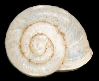 Photo of shell of Vallonia pulchella. Locality: Germany: Germany: Schleswig-Holstein, Unterlauf Kronsbek. Date: 3 March 1952.